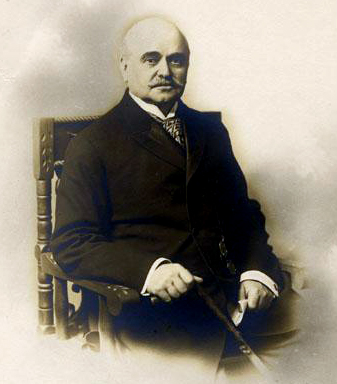 digital copy of the portrait of unknown author